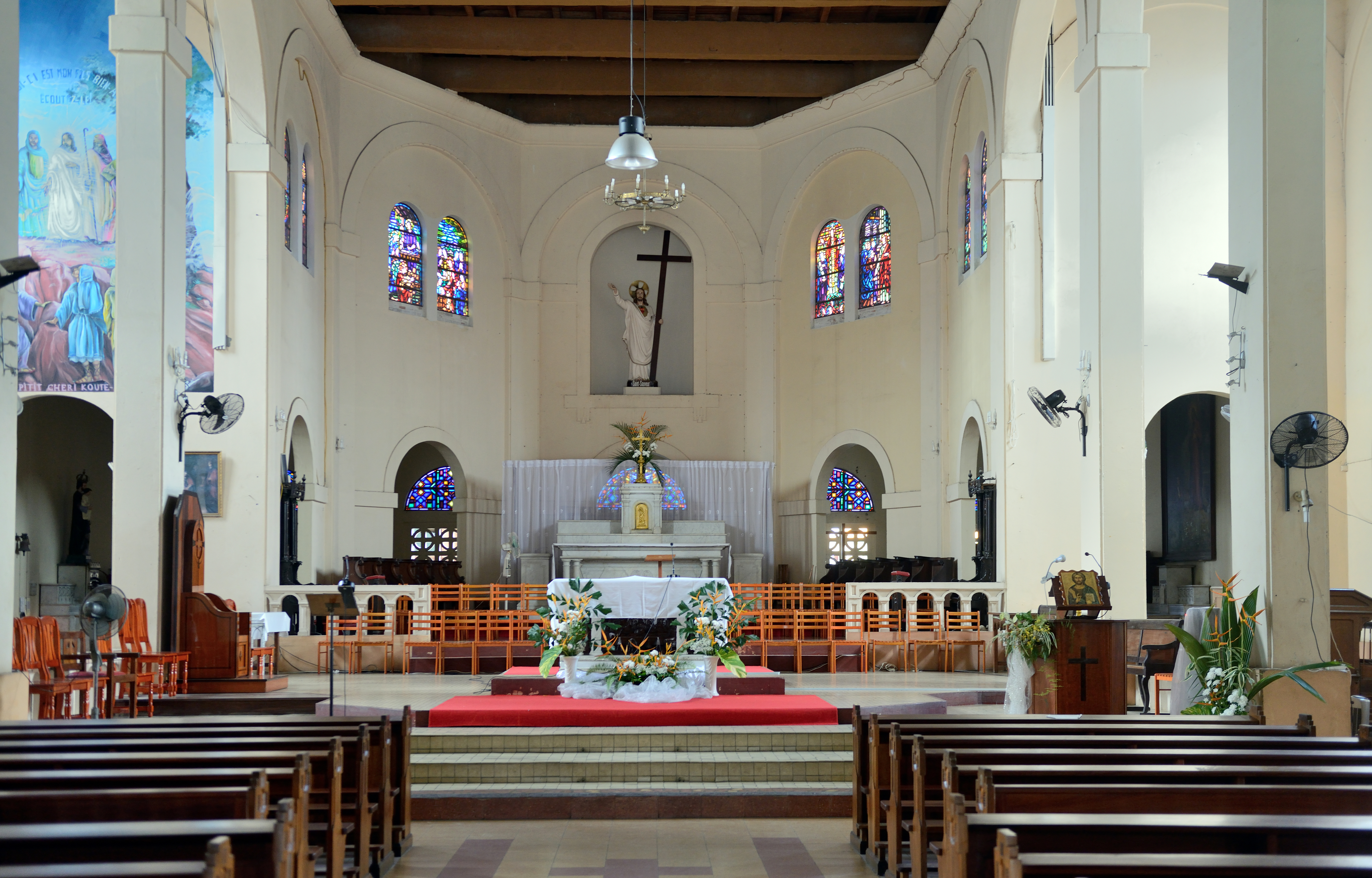 Cayenne, French Guiana: nave and chancel of the cathedral.